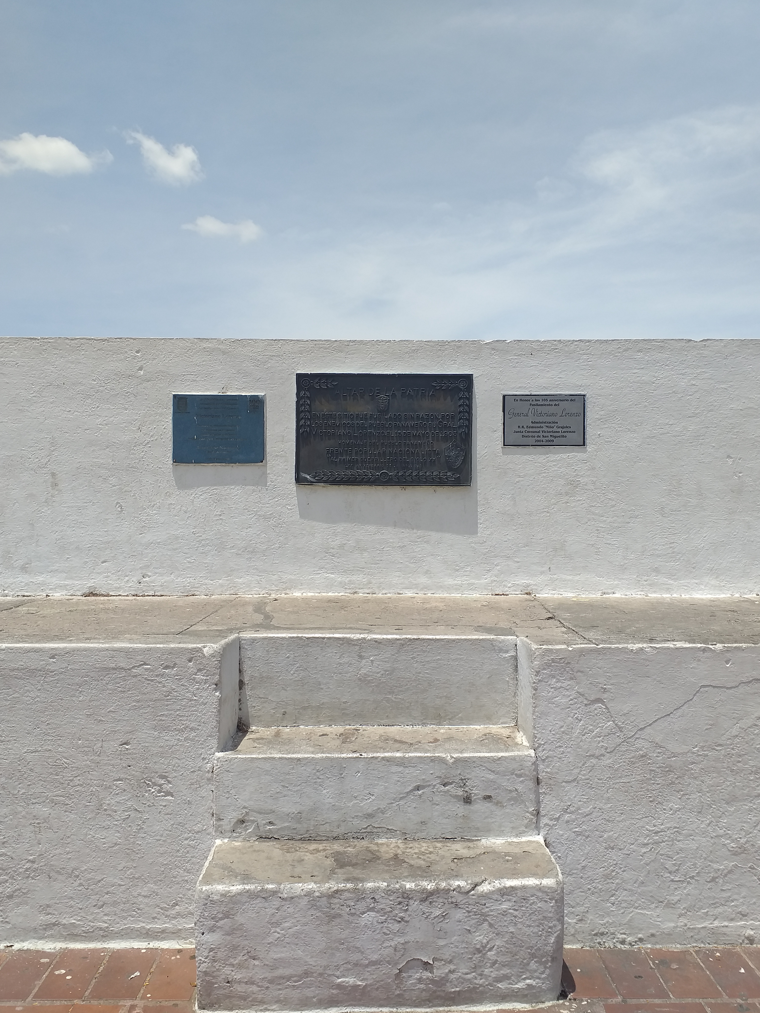 [Center plaque reads:] National Altar In this site was shooted without reason, by enemies of the people of Panama the General Victoriano Lorenzo on may 15th of 1903 Tribute from the people of Panama National Popular Front lists "the first guerilla of the 20th century" 71st anniversary of the inequity